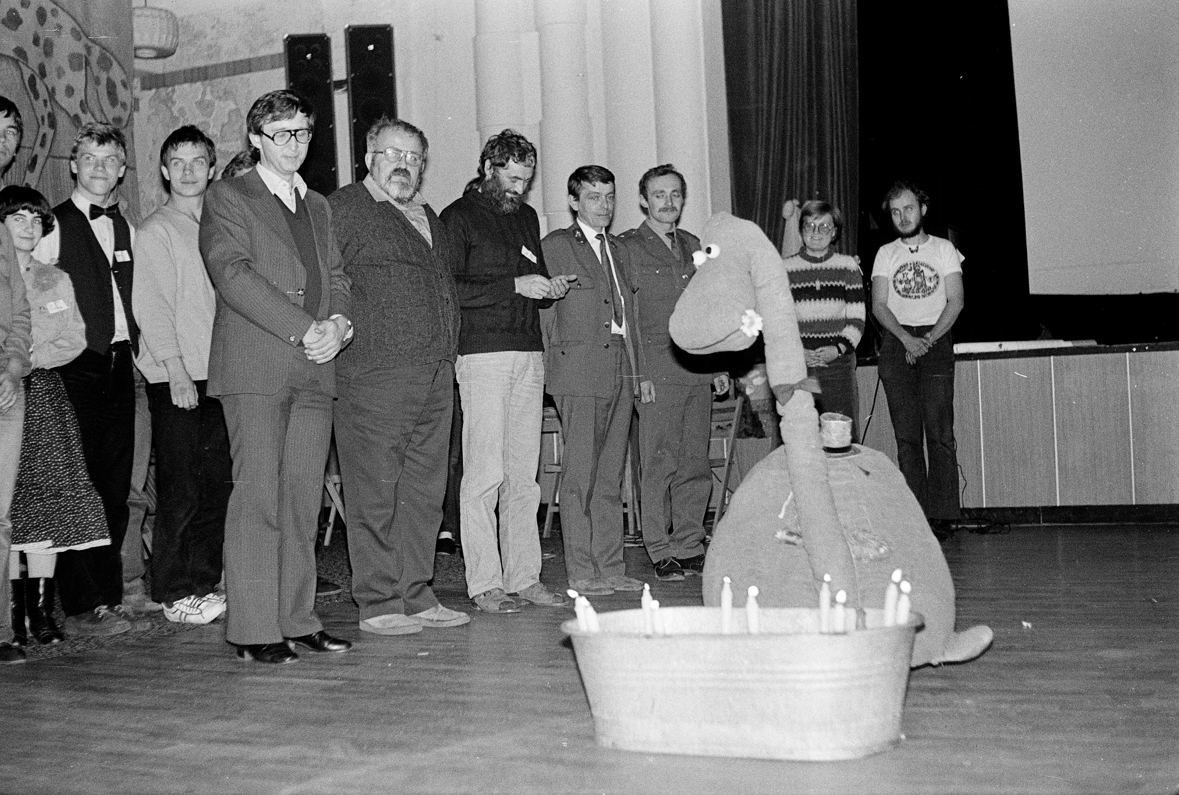 Celebration of 10 years of Hnutí Brontosaurus, 1984